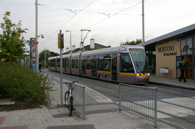 Beechwood Station LUAS tram waiting for passengers to board before going into the city centre